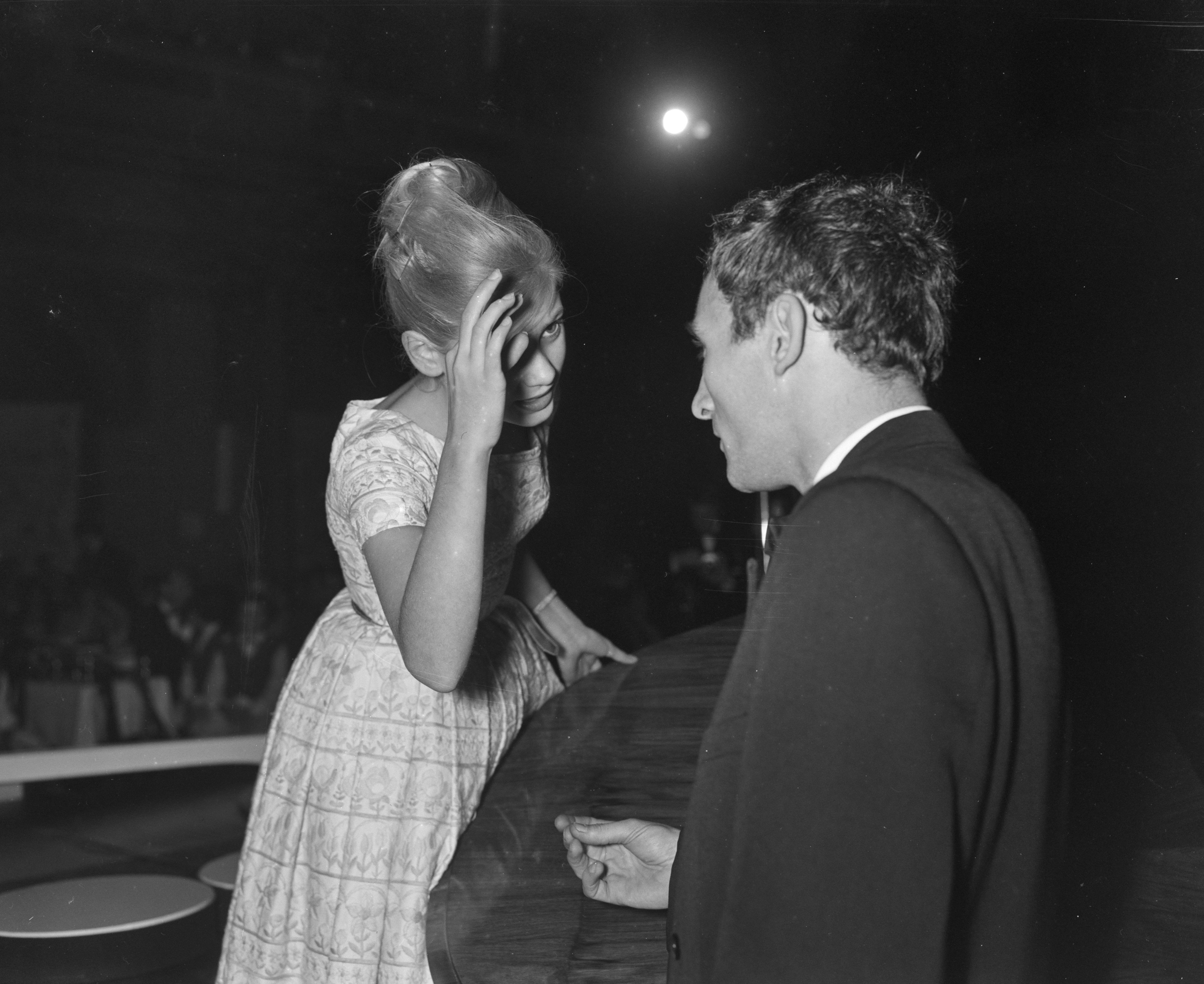 Gitte Haenning & Enrico Neckheim. Grand Gala du Disque, Concertgebouw Amsterdam (NL), 22 October 1960